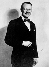 U.S. Senator Joshua B. Lee (D-OK)